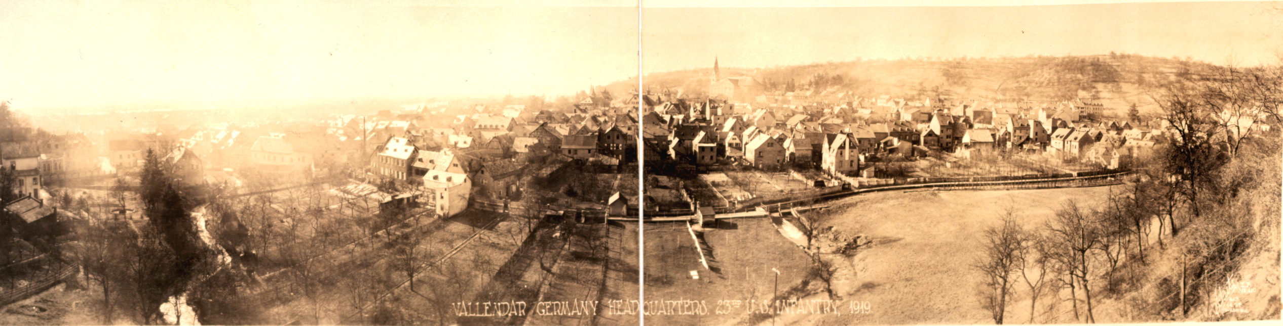 Panoramic photo of Vallendar, Germany headquarters, 23rd U.S. Infantry